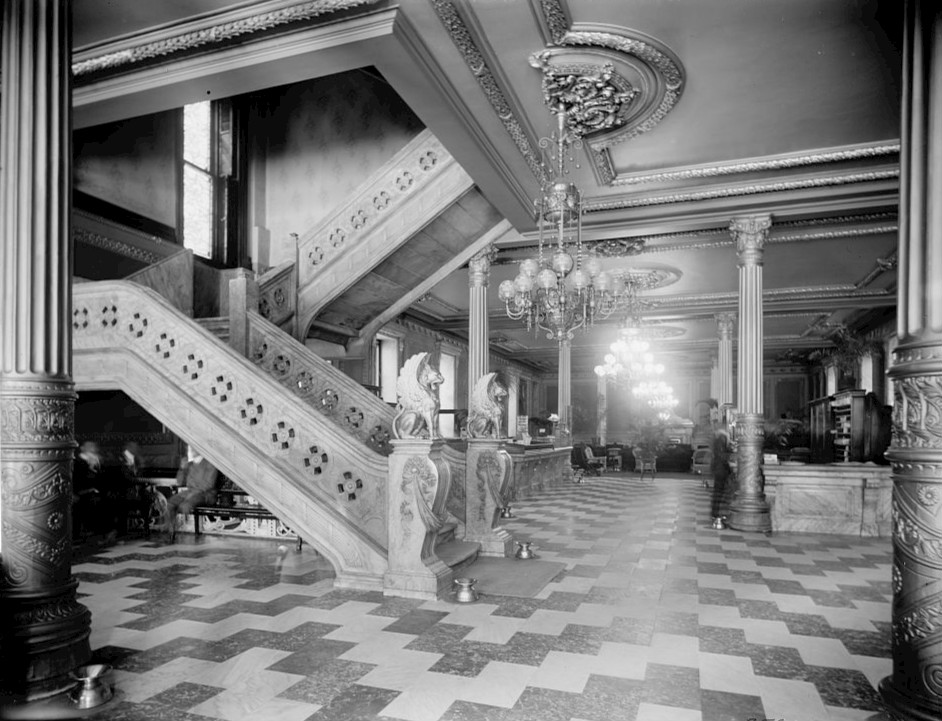 Photo of the office and foyer of the Murray Hill Hotel, New York City. The hotel was built in 1884 and razed in 1945.